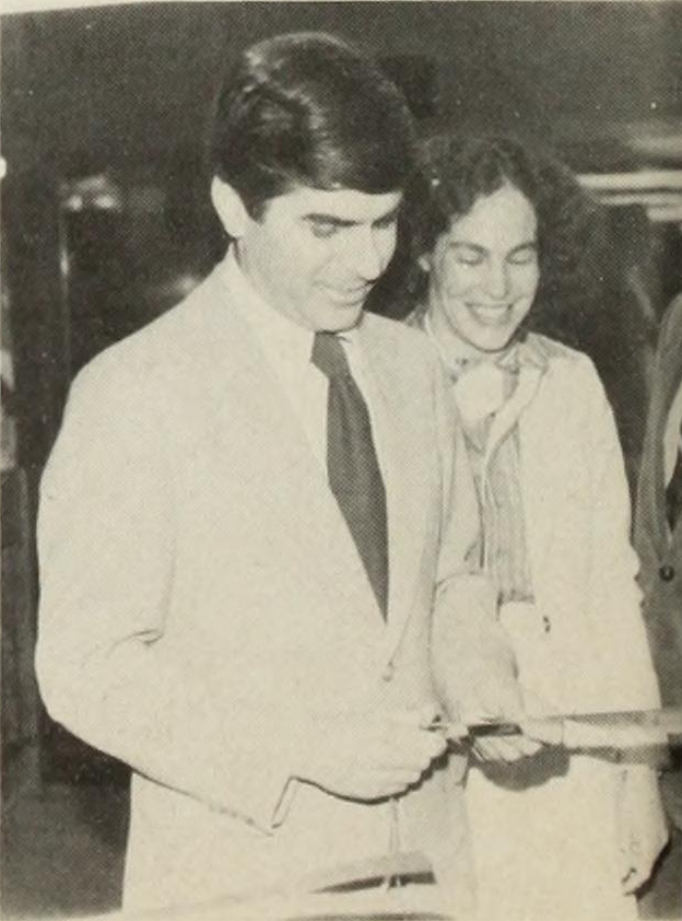 Michael Dukakis cuts the ribbon at the modernized Washington Station Concourse on May 19, 1978. MBTA Board member Claire R. Barrett is to his right.